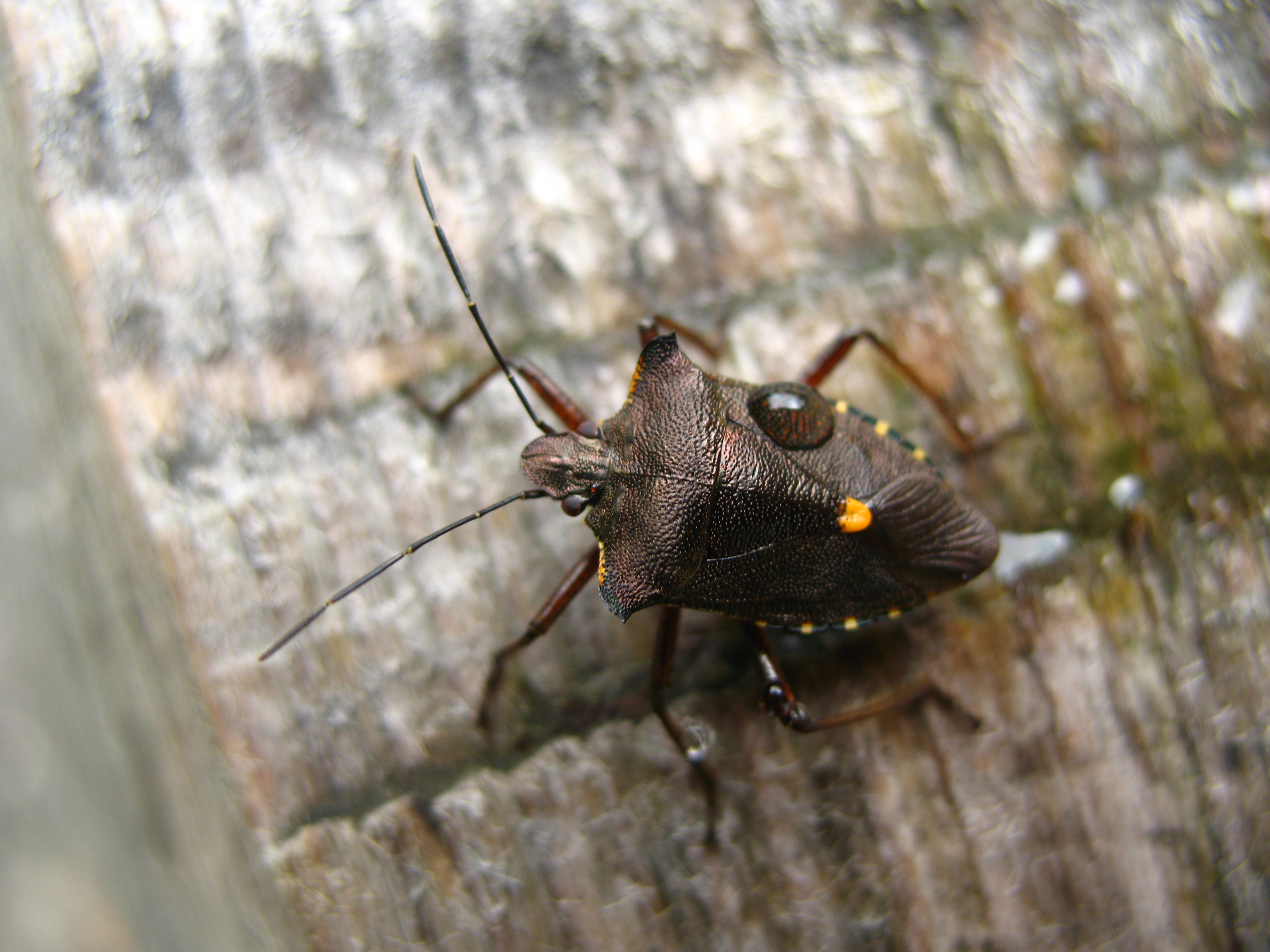 Pentatomidae, Stechelberg, Switzerland